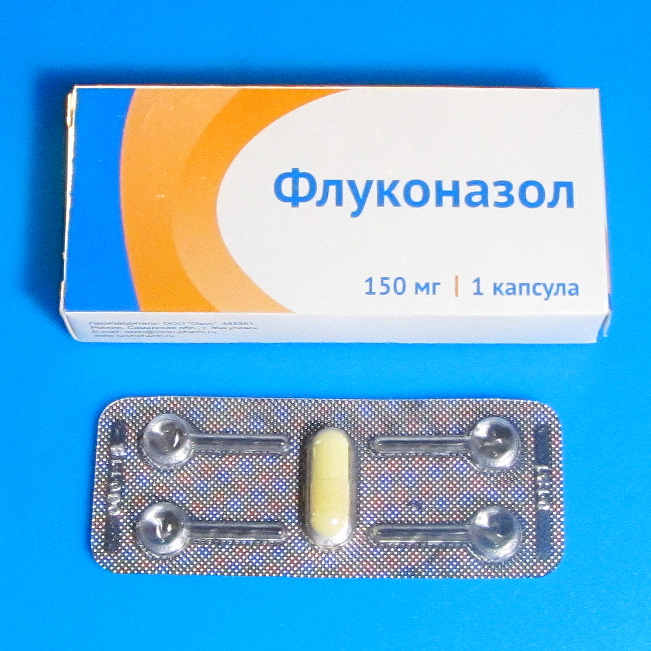 Fluconazole